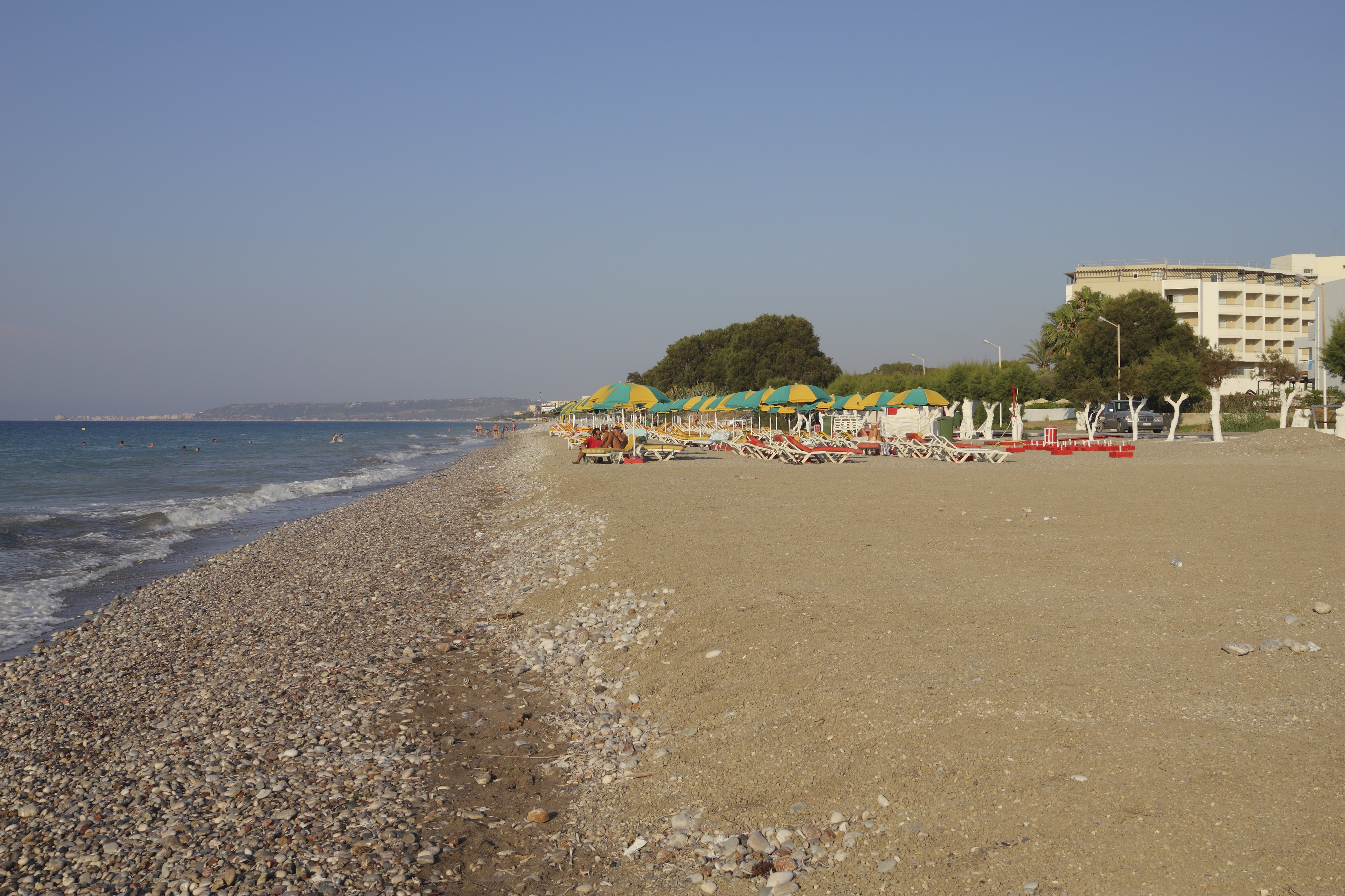 Mediterranean beach in Kremasti, Rhodes, Greece